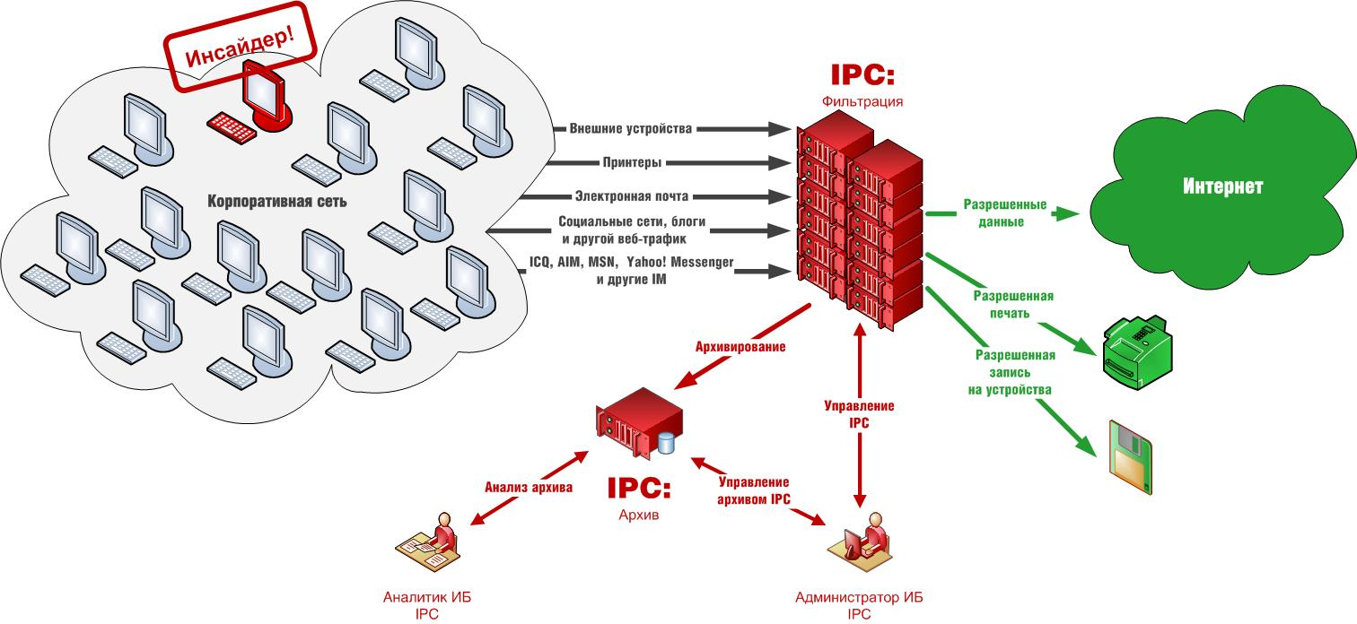 Scheme Data Loss Prevention block in Information Protection and Control